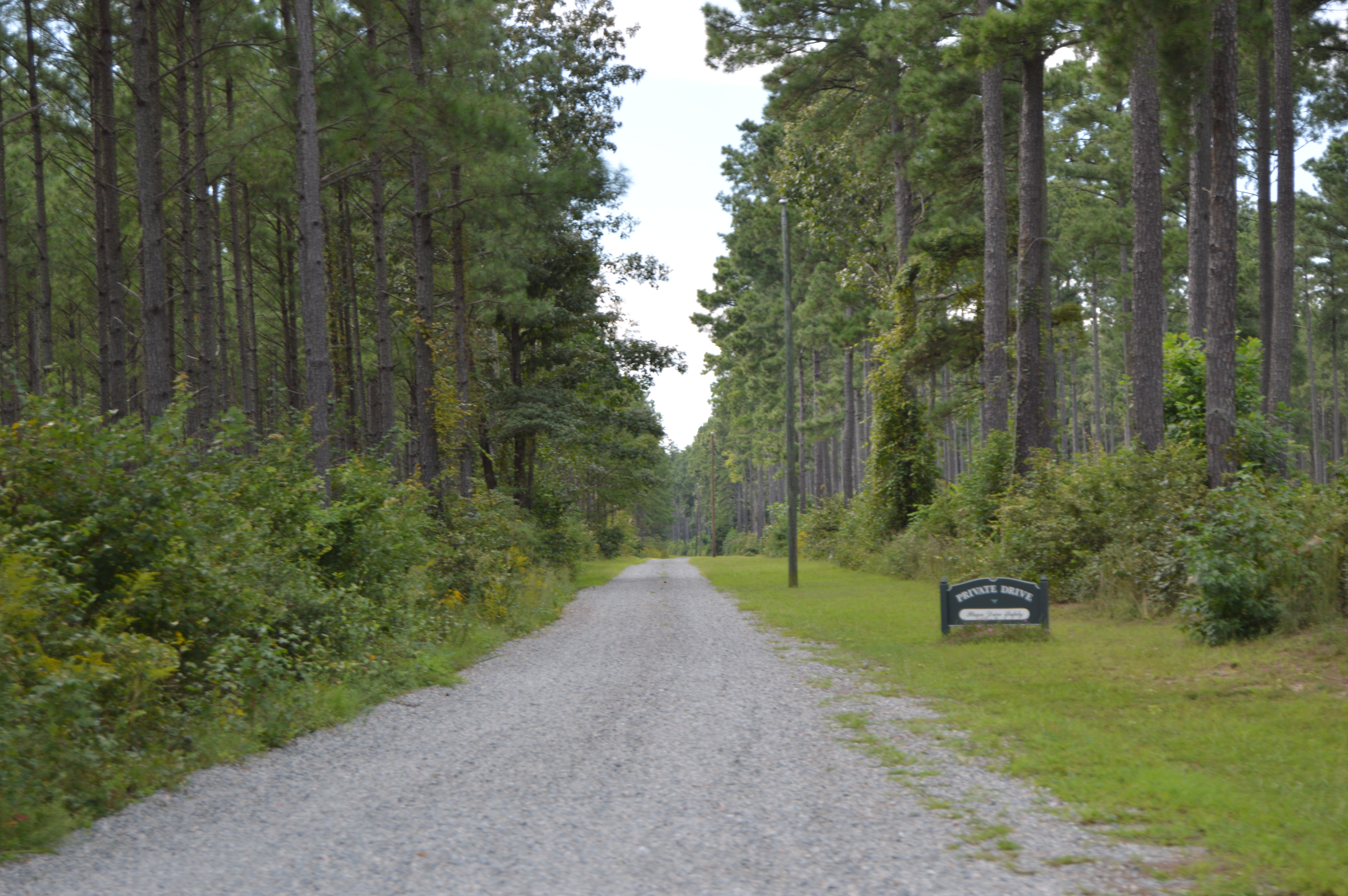 Entrance to the Newington estate, located off Frazier's Ferry Road just west of King and Queen Court House in King and Queen County, Virginia, United States. Much of the property is an archaeological site and has been listed on the National Register of Historic Places.